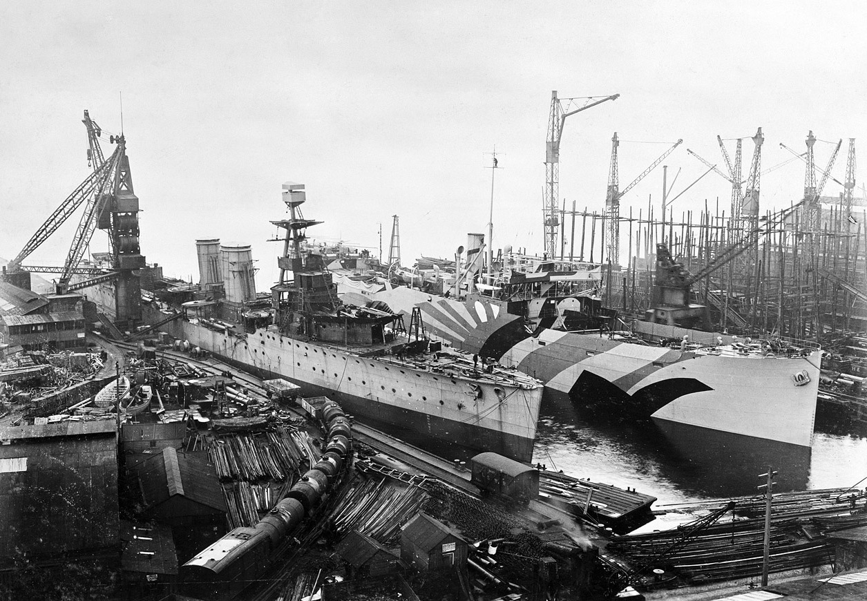 An elevated view of part of Scott's Yard, Greenock. In the foreground is a starboard bow view of the cruiser HMS Dragon (1917) undergoing conversion to be fitted with a seaplane hanger. Next to her in dazzle camouflage is the tanker War Angler (1918) being fitted out. Note, to the left, the fixed derrick crane, of 100 tons capacity, built by G.Russell & Co. of Motherwell in 1905.